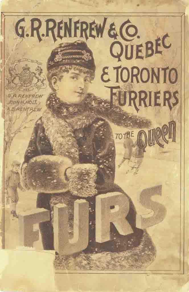 Cover of the 1890-91 catalogue of G.R. Renfrew & Co., Canadian retailer/fur merchant and "Furriers in Ordinary" to Queen Victoria. At this time, the company (which later would become Holt Renfrew) has stores in Quebec City and Toronto.